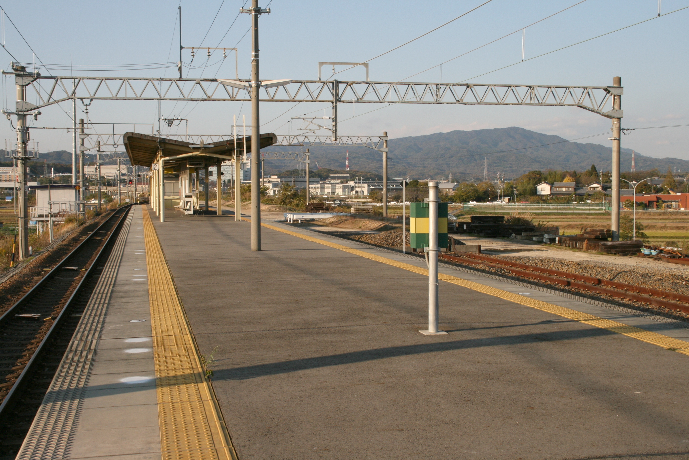 Shigo Station in Toyota, Aichi, Japan